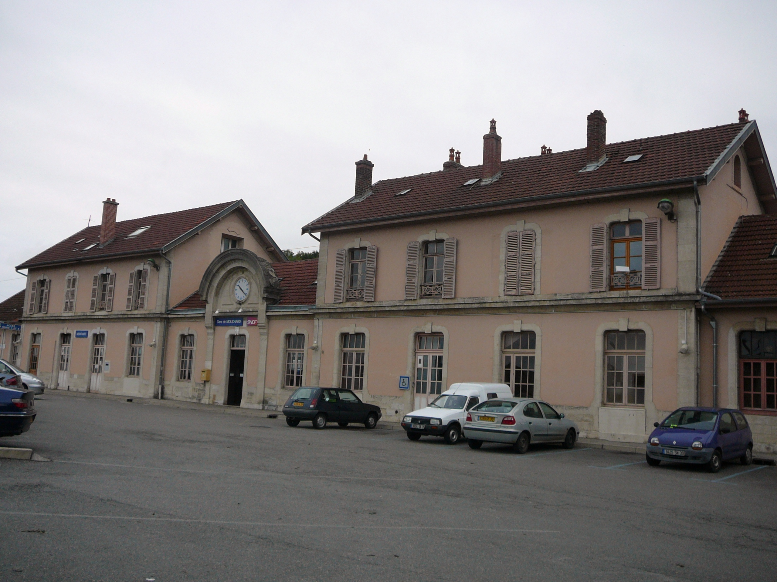 Mouchard's station